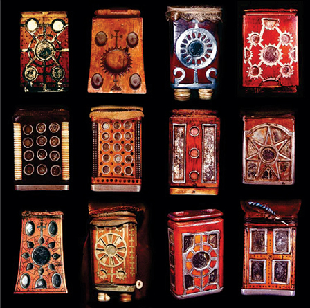 These bagpipes are decorated with mirrors on the front stocks